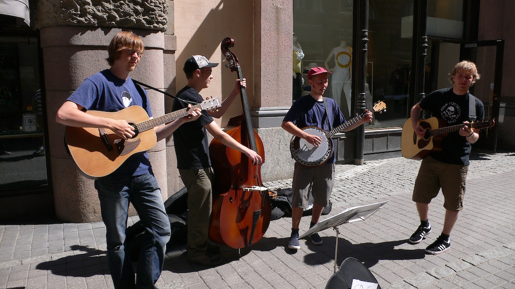 Bluegrass street performers Rautakoura, Helsinki, Finland.